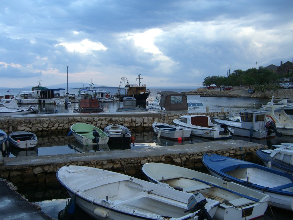 Copyright 2006 Michael R. Davis; Pentax Optio; picture taken in the port of Lun, Croatia, Summer 2006. Provided to wikipedia under the GFDL license.